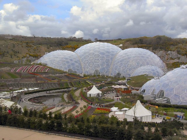 Eden Project.